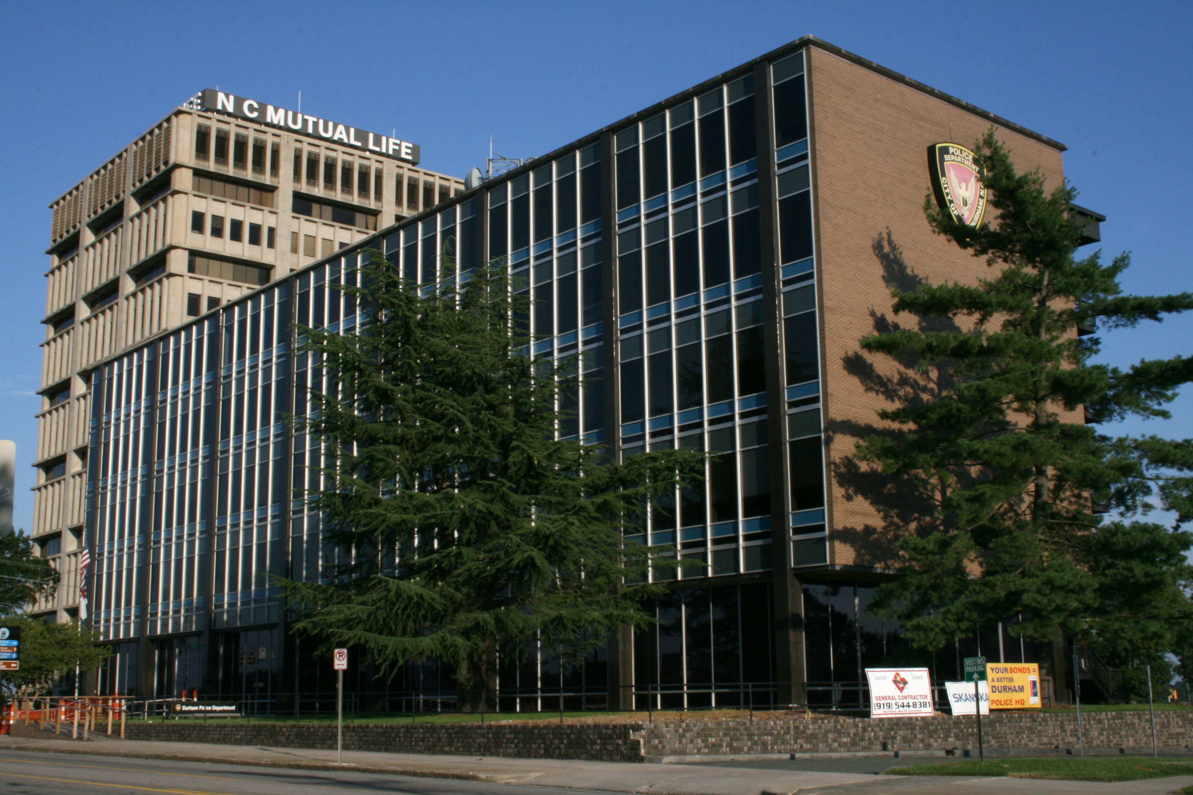 Durham Police Department in Durham, North Carolina. In the background is the North Carolina Mutual Life Insurance Company Building.